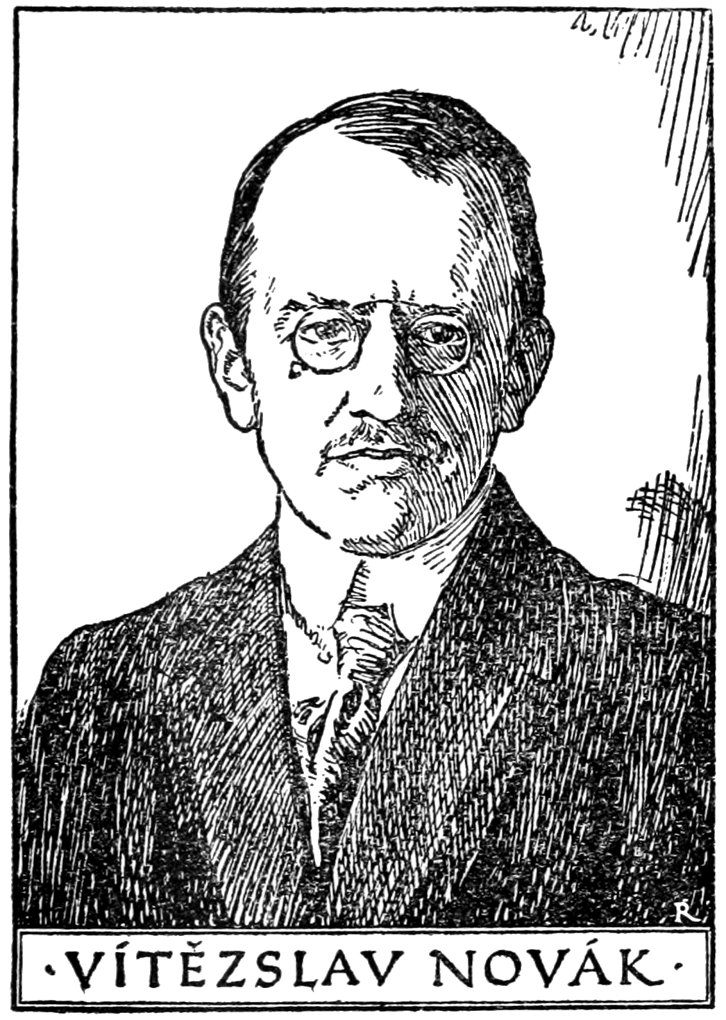 The music of Bohemia